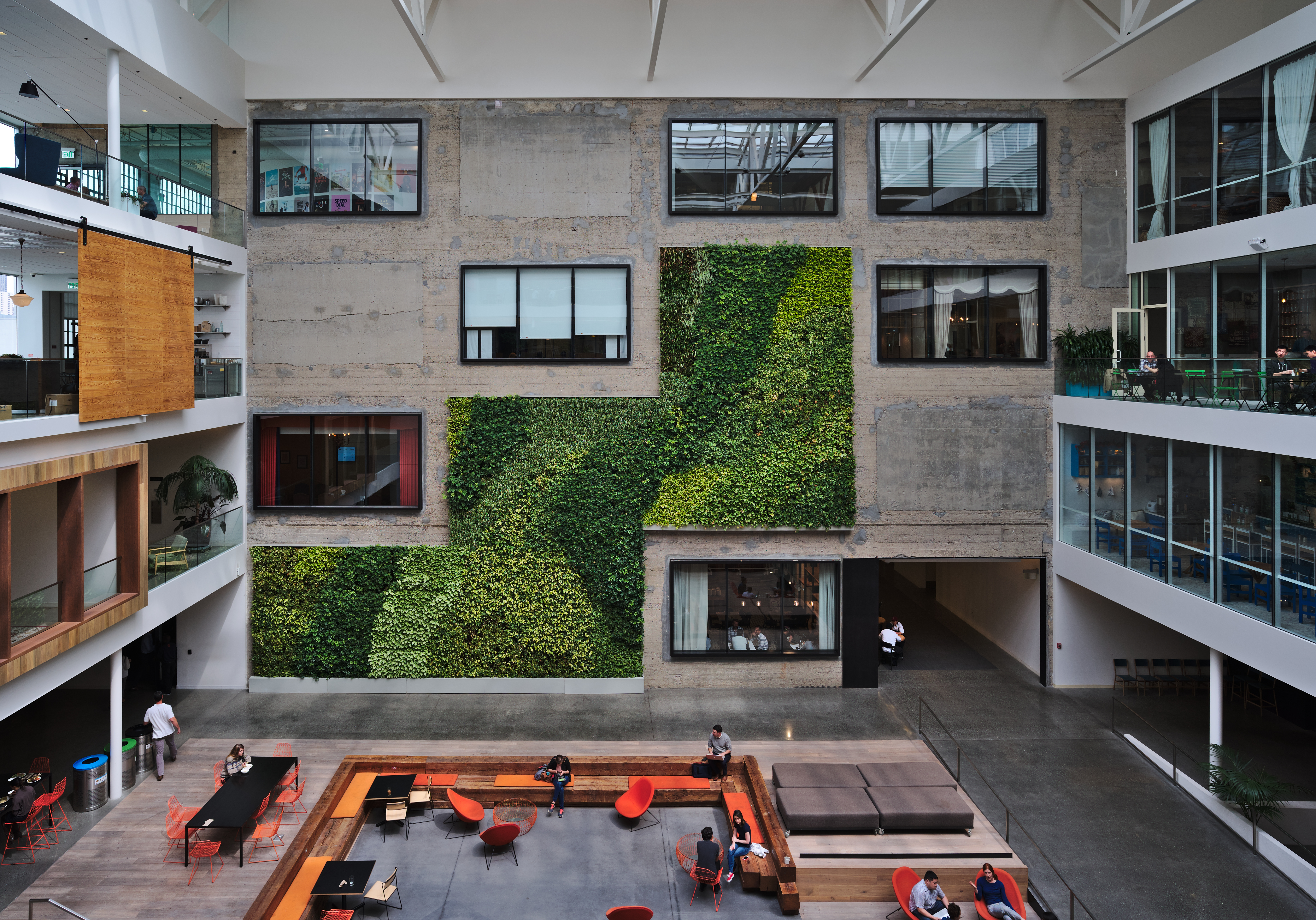 Atrium of the headquarters of Airbnb in San Francisco.